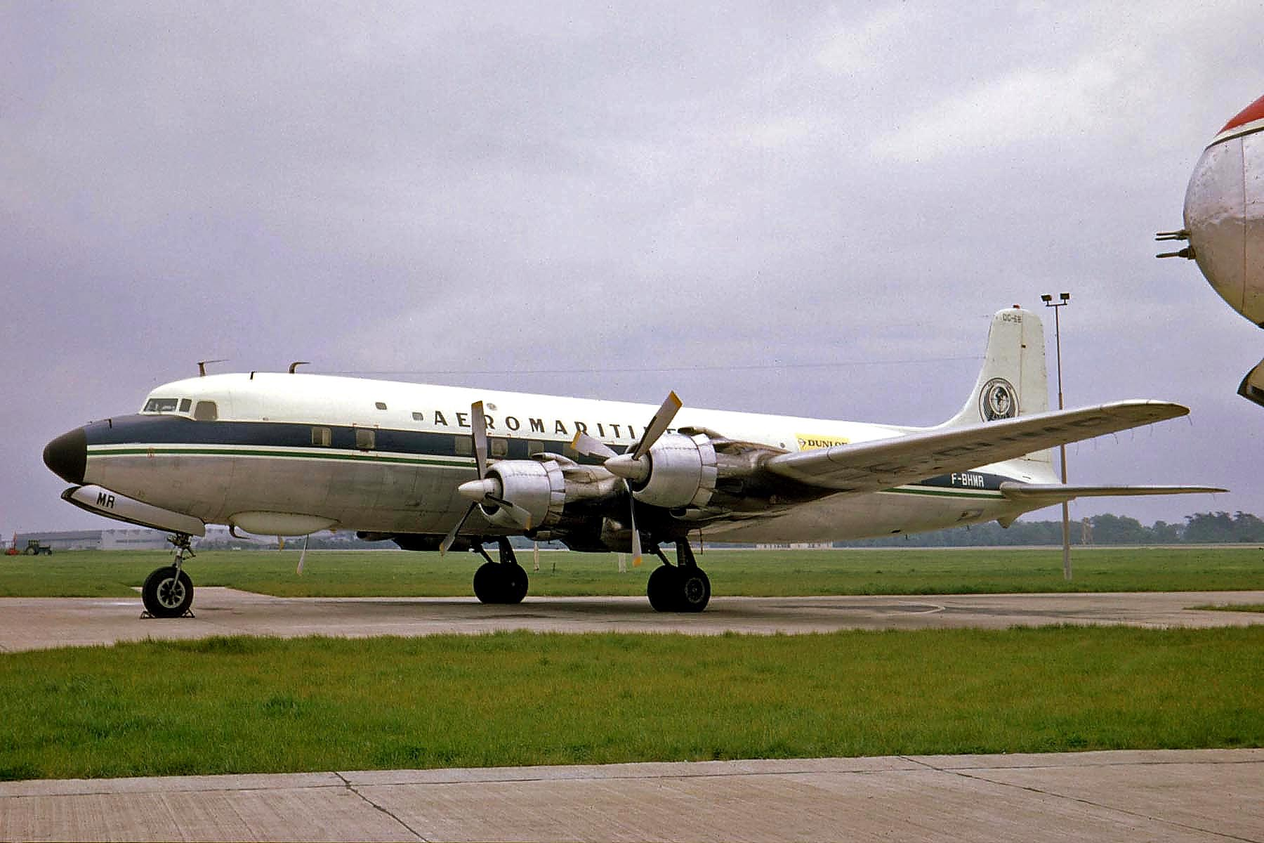 A picture of an airplane (name of it is on the file name).